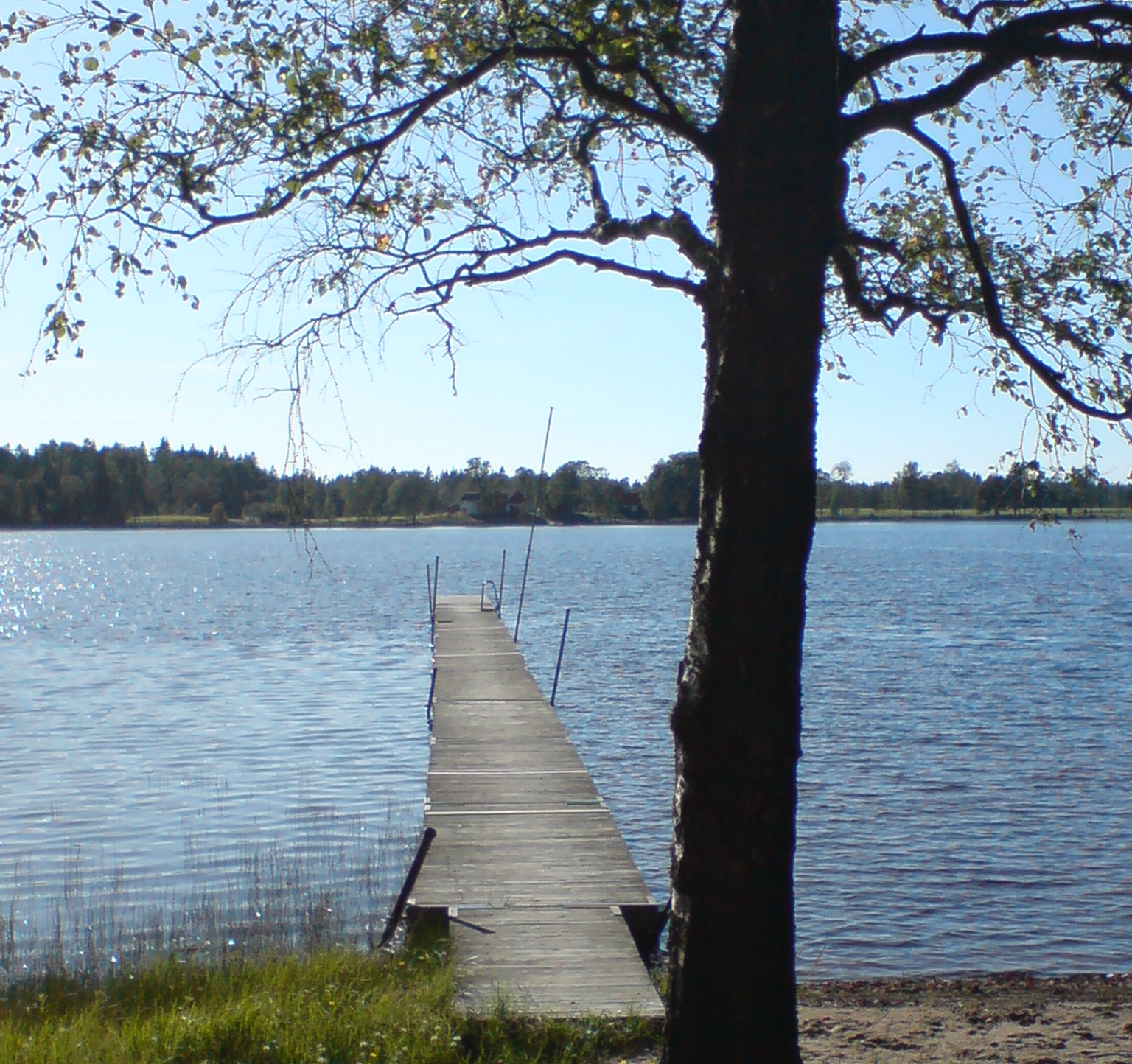 A perfect little uncrowded swimming lake